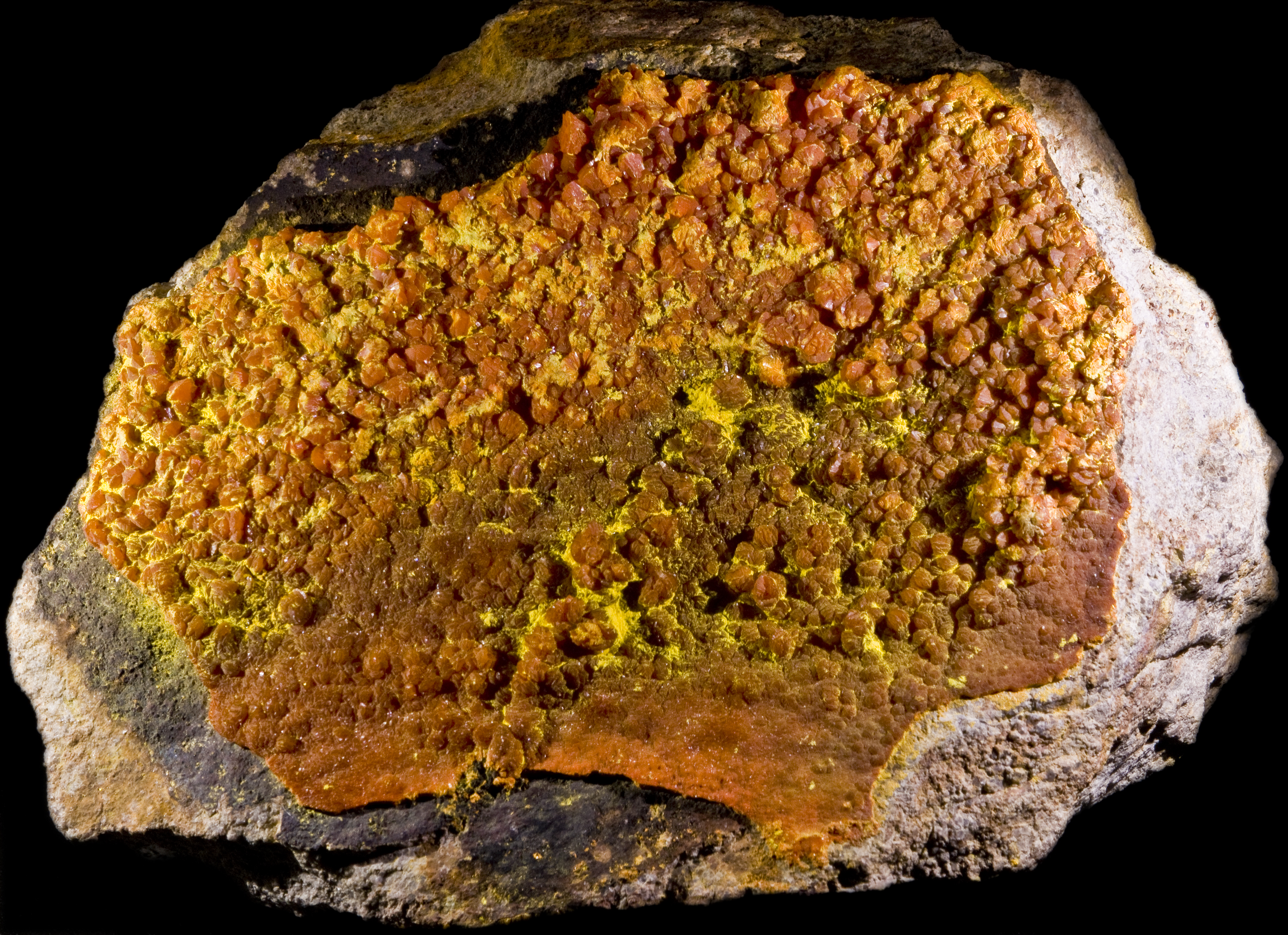 Francevillite with Curienite Locality : Mounana Mine, Franceville, Haut-Ogooué, Gabon - Toptype deposit Size : 23 x 17 cm Size of crystal 0.8cm